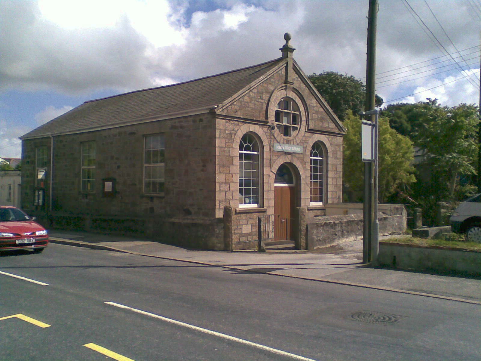 Lanner Band Room, the meeting place of the Lanner Silver Band. Lanner is a village in Cornwall, south of Redruth.